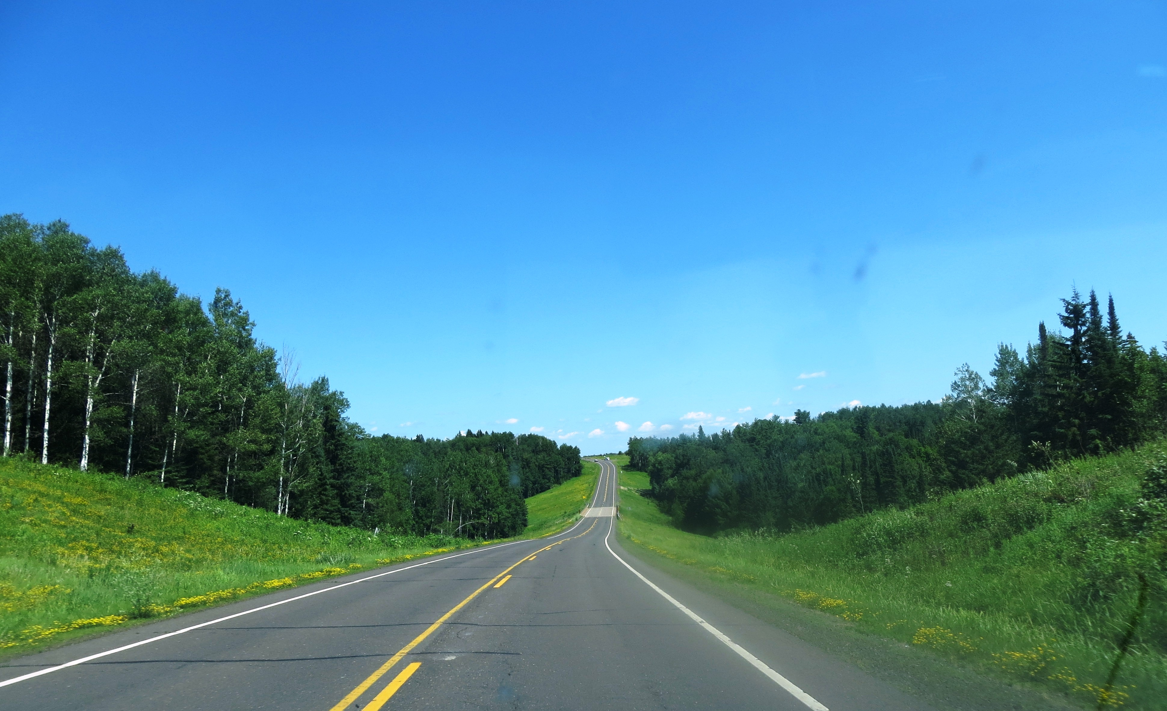 Road scenery from Douglas county of Wisconsin, USA. This is state highway 13 eastwards.